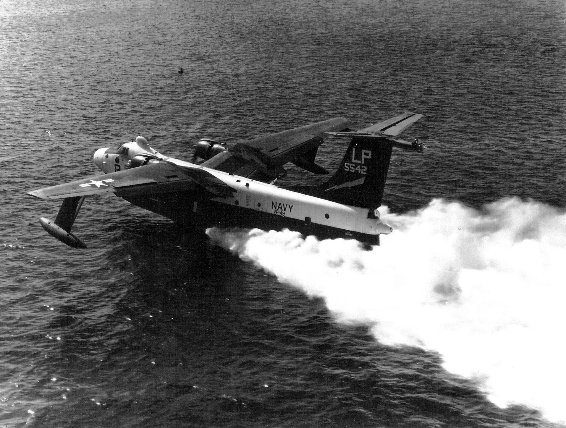 A U.S. Navy Martin SP-5B Marlin (BuNo 135542) from Patrol Squadron VP-49 taking off from Guantanamo Bay, Cuba, on 15 March 1963.